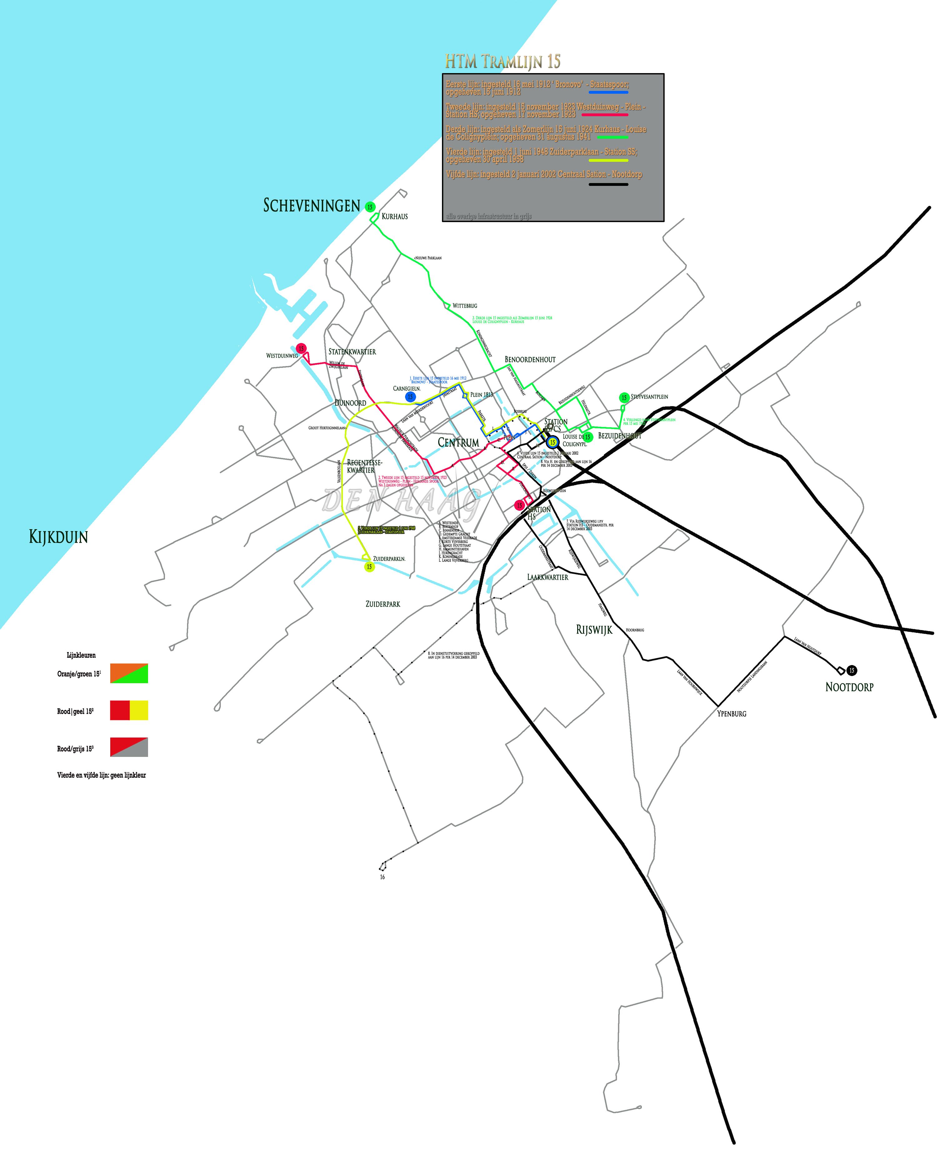 Routes of tram 15, The Hague, The Netherlands